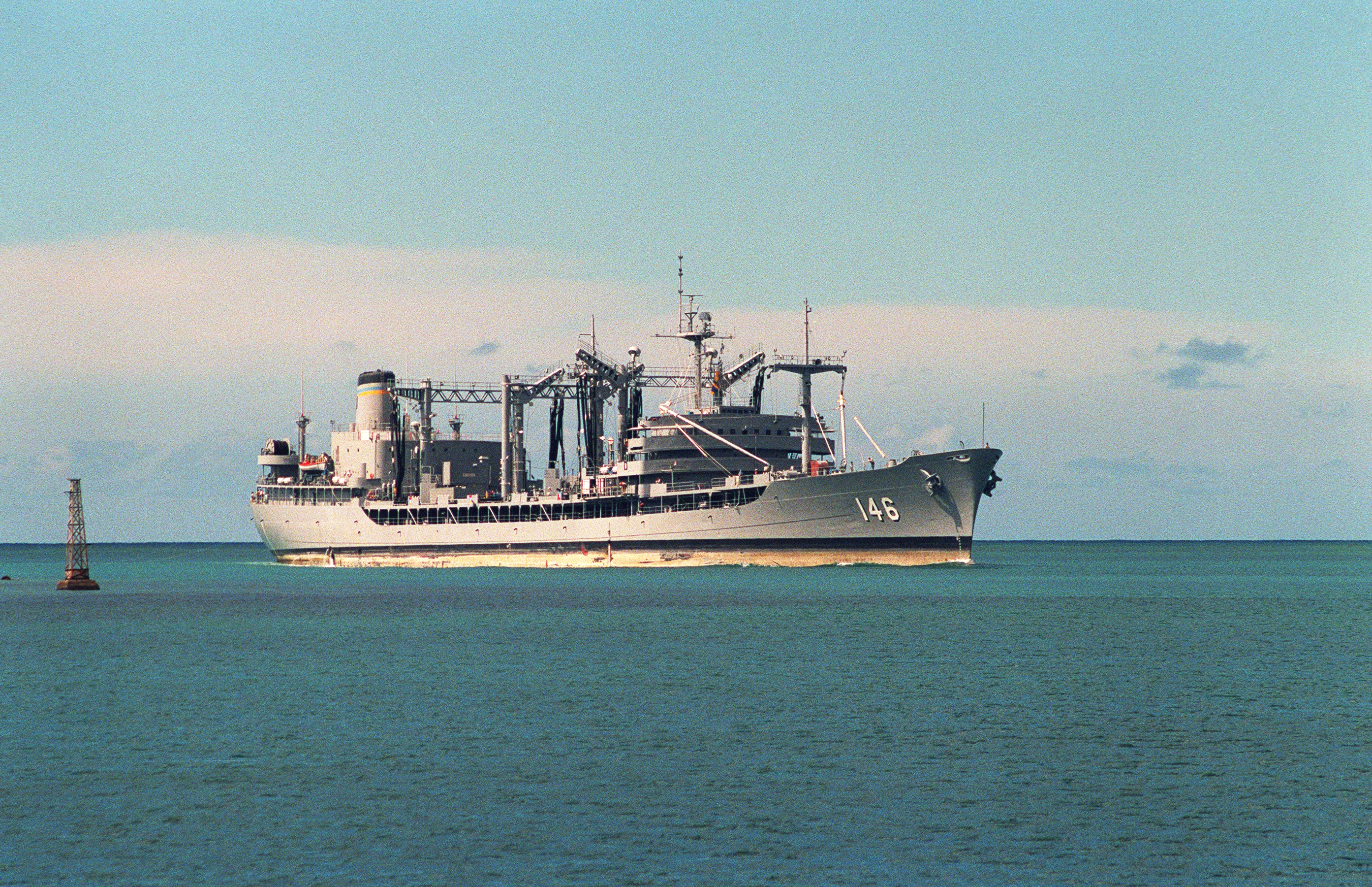 The U.S. Military Sealift Command fleet oiler USNS Kawishiwi (T-AO-146) enters the channel as it arrives for a visit to Naval Station, Pearl Harbor, Hawaii (USA), on 1 June 1991.